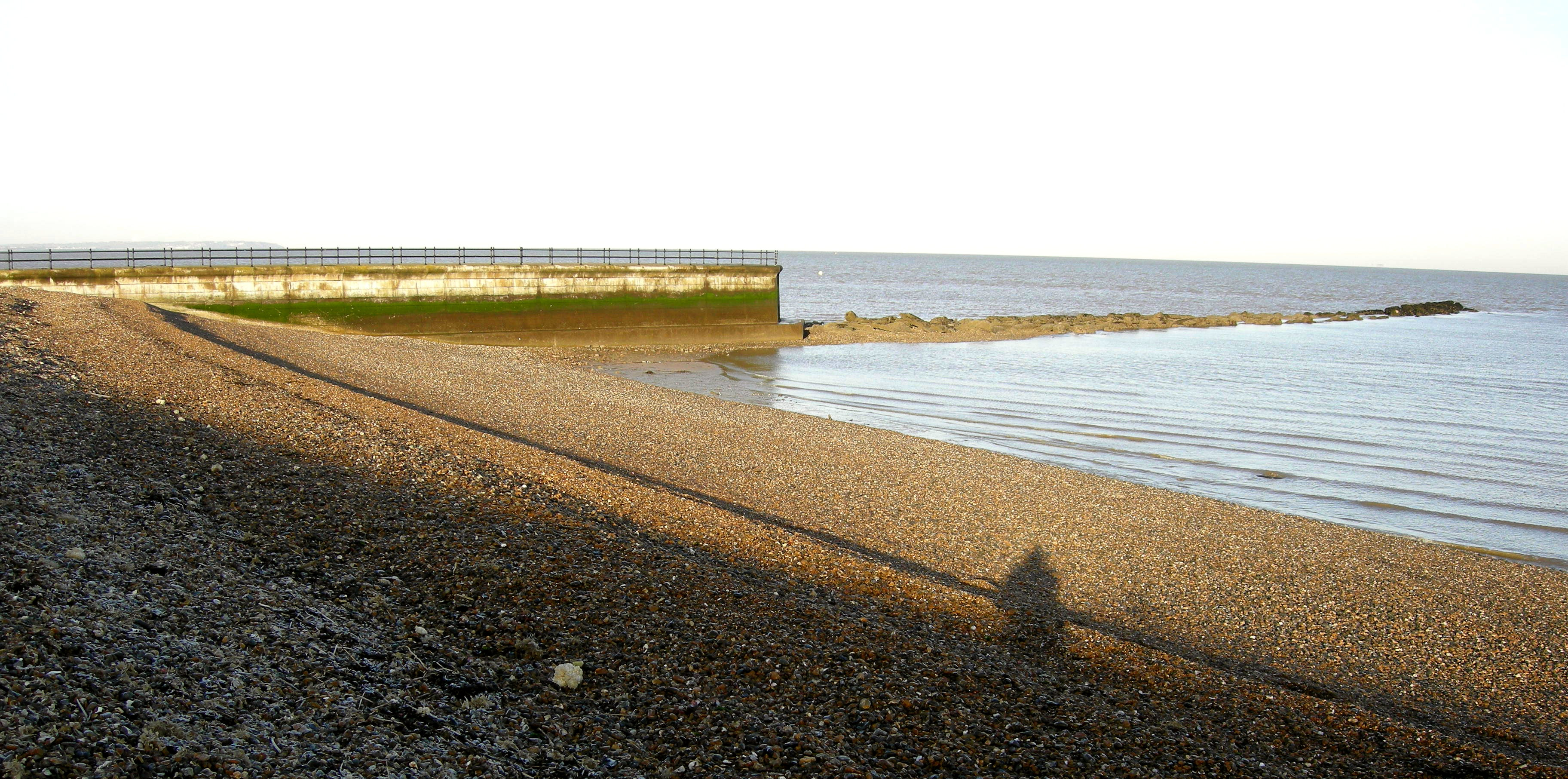 Site of abandoned and drowned village Hampton-on-Sea, Herne Bay, Kent, England. Source of identification of site: Martin Easdown, Adventures in Oysterville, (Michael's Bookshop, Ramsgate, 2008)